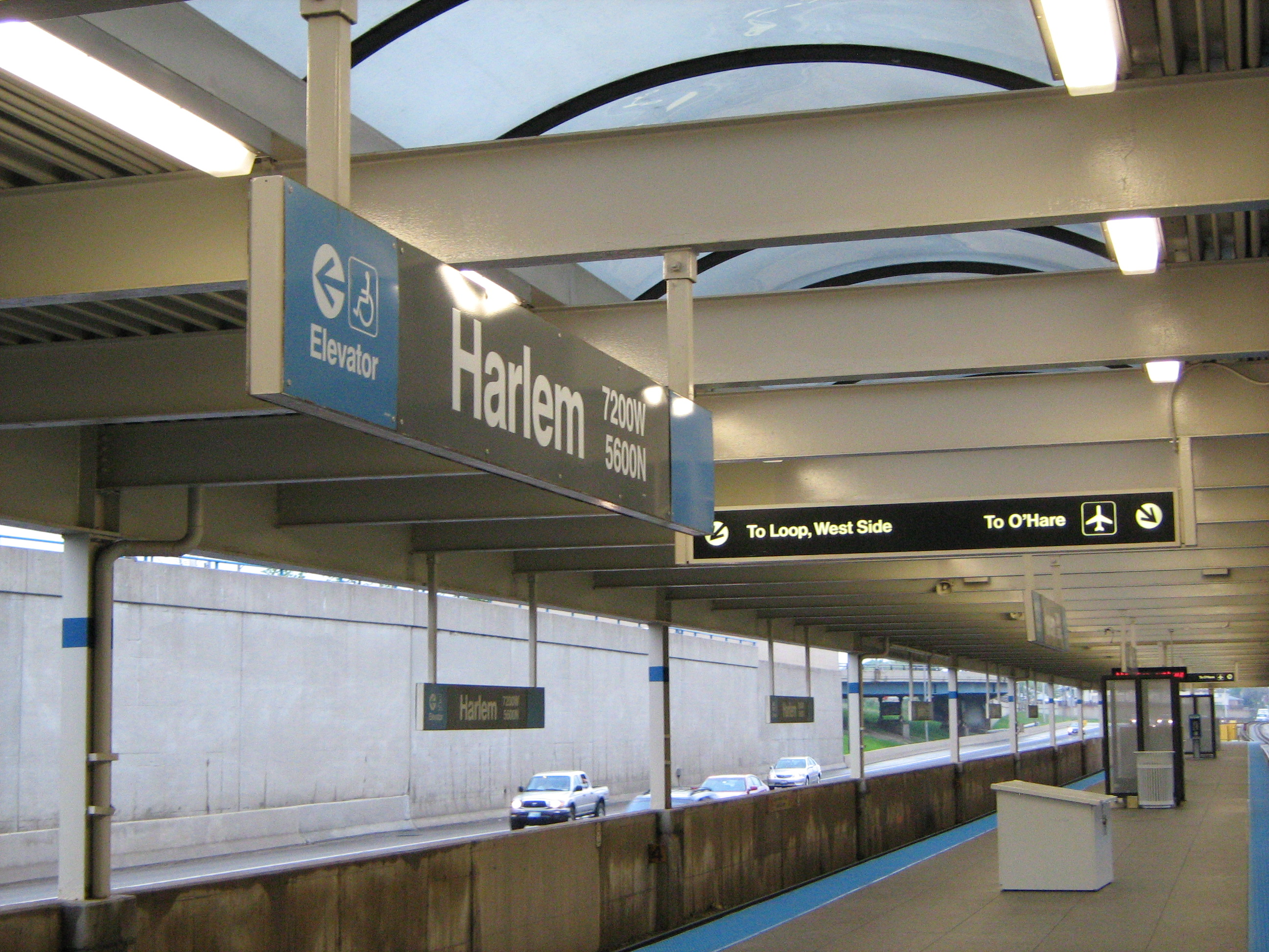 Harlem/Higgins CTA Station